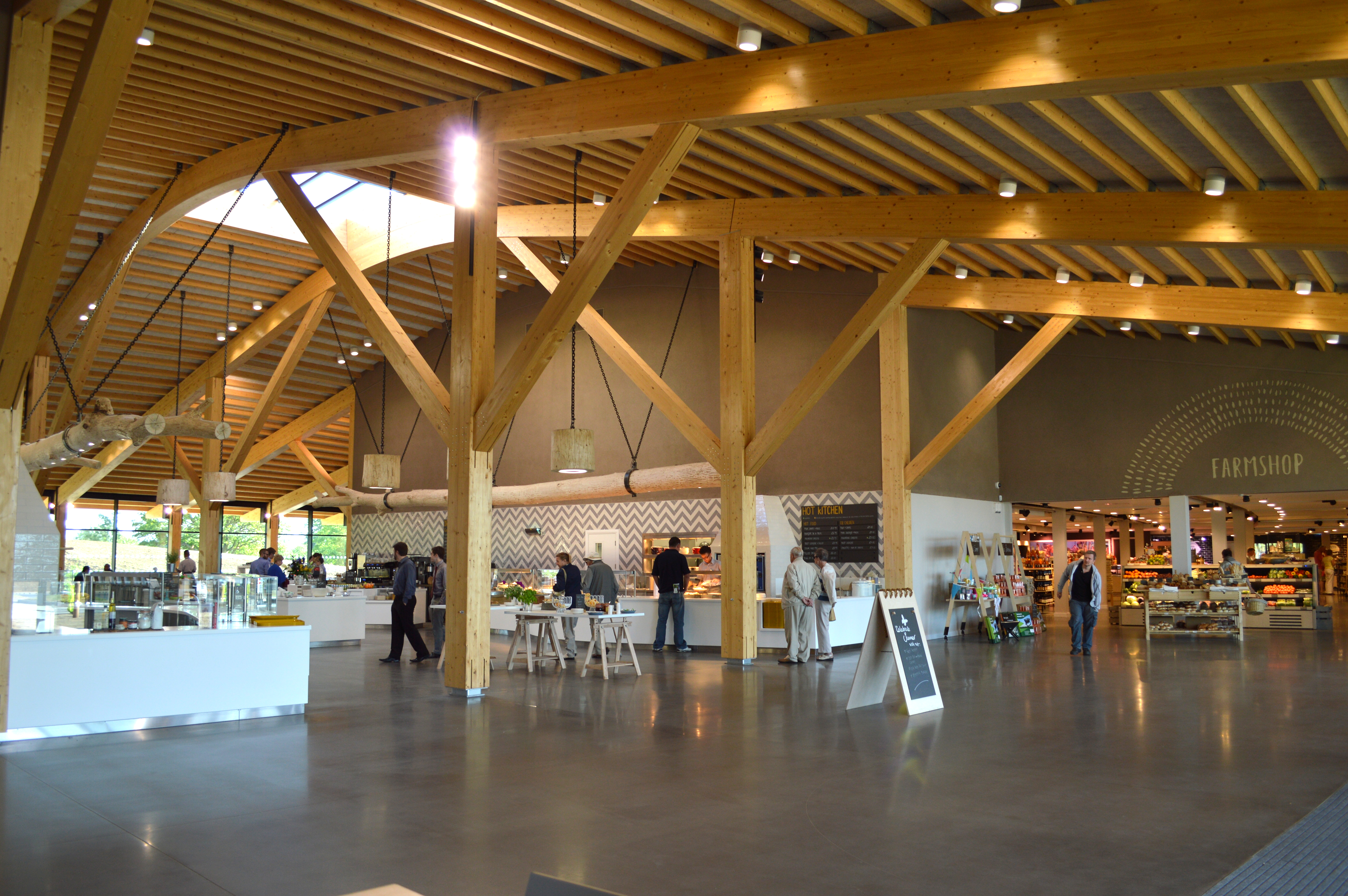 The interior of Gloucester Services, southbound on the M5 motorway.